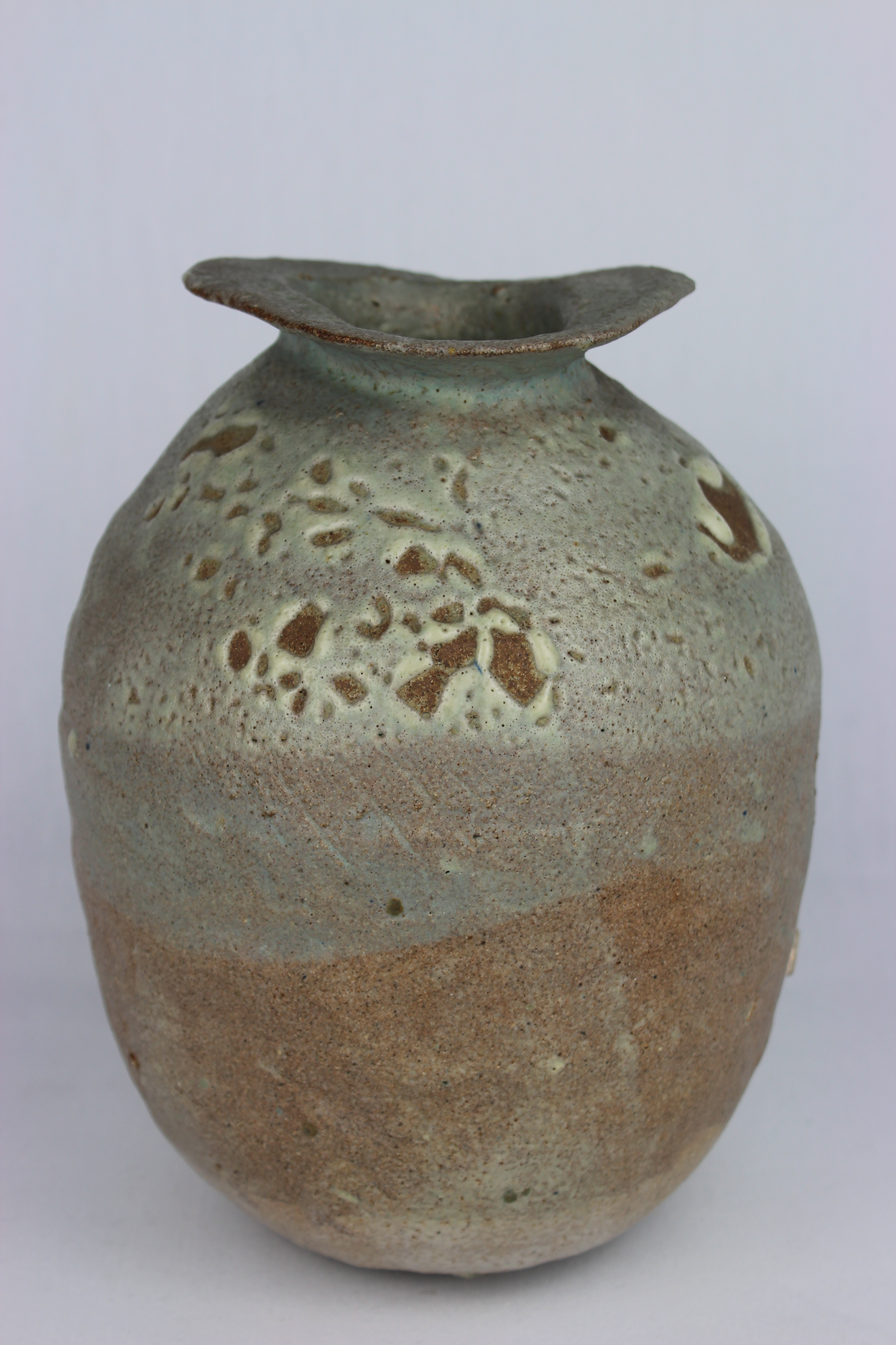 Handbuilt coiled and pinched tall pot with irregular rim. From the W.A. Ismay Studio Ceramics Collection at York Art Gallery